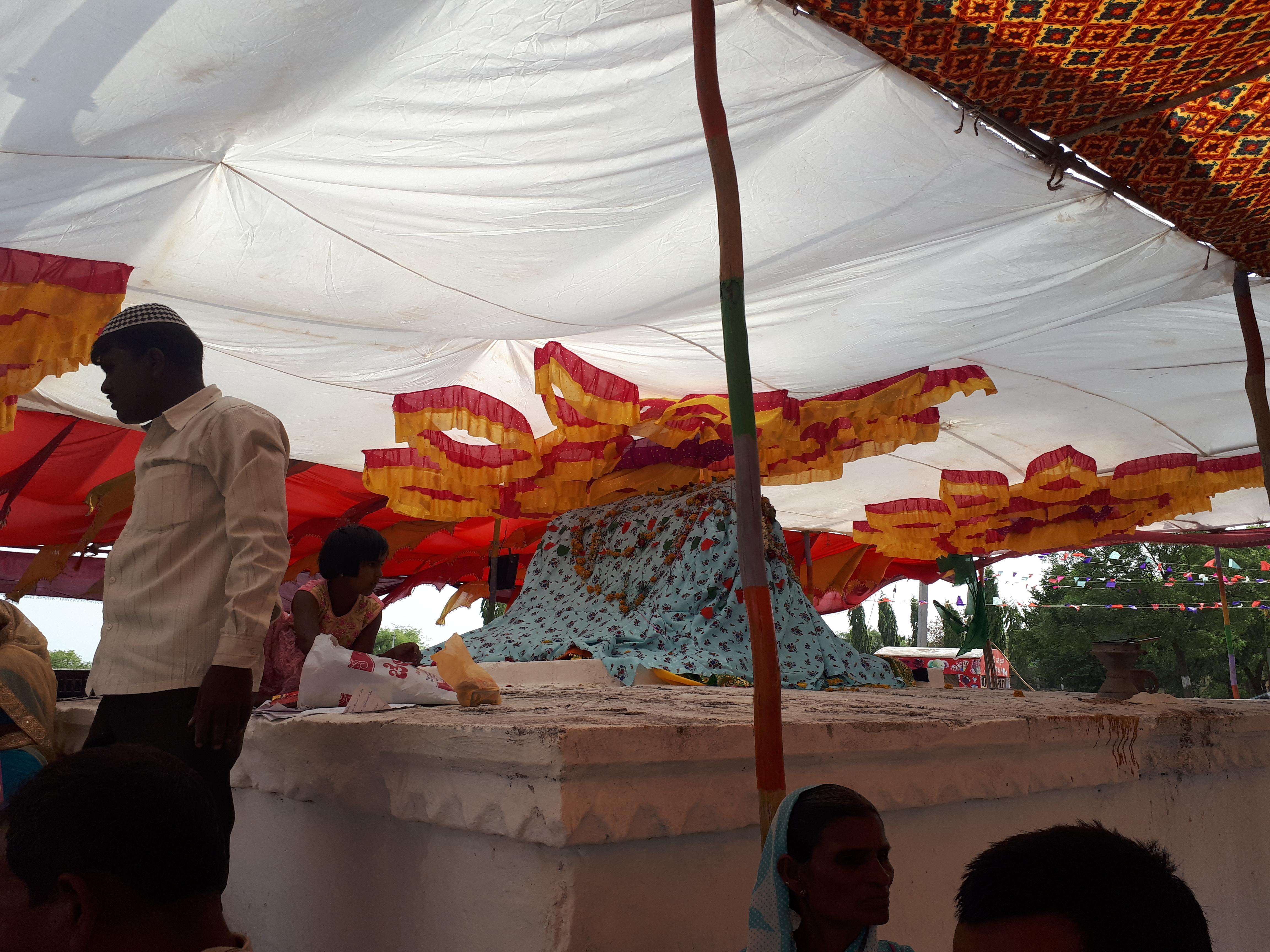 shakarbashah